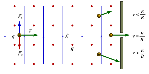 Filtro de Velocidades